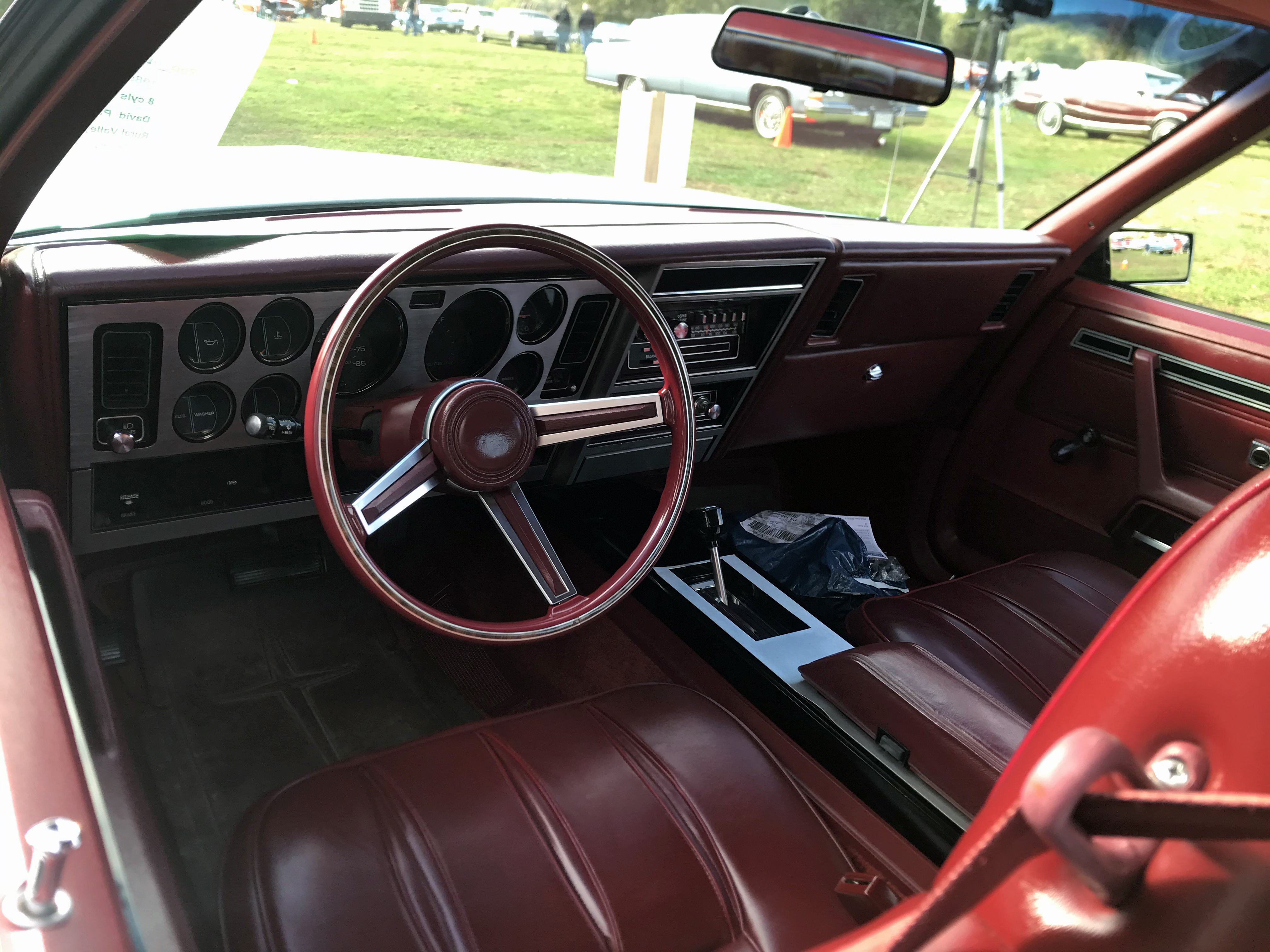 The Cherry Red dashboard of a 1980 Dodge Mirada in the show area at Hershey 2019. Eggshell White, original 10-spoke cast wheels and 8-track AM/FM stereo, original owner. Delivered new on 27 May 1980 to Lelock Motors in Punxsutawney, Pennsylvania. The 318 V8 delivers a whopping 120hp.